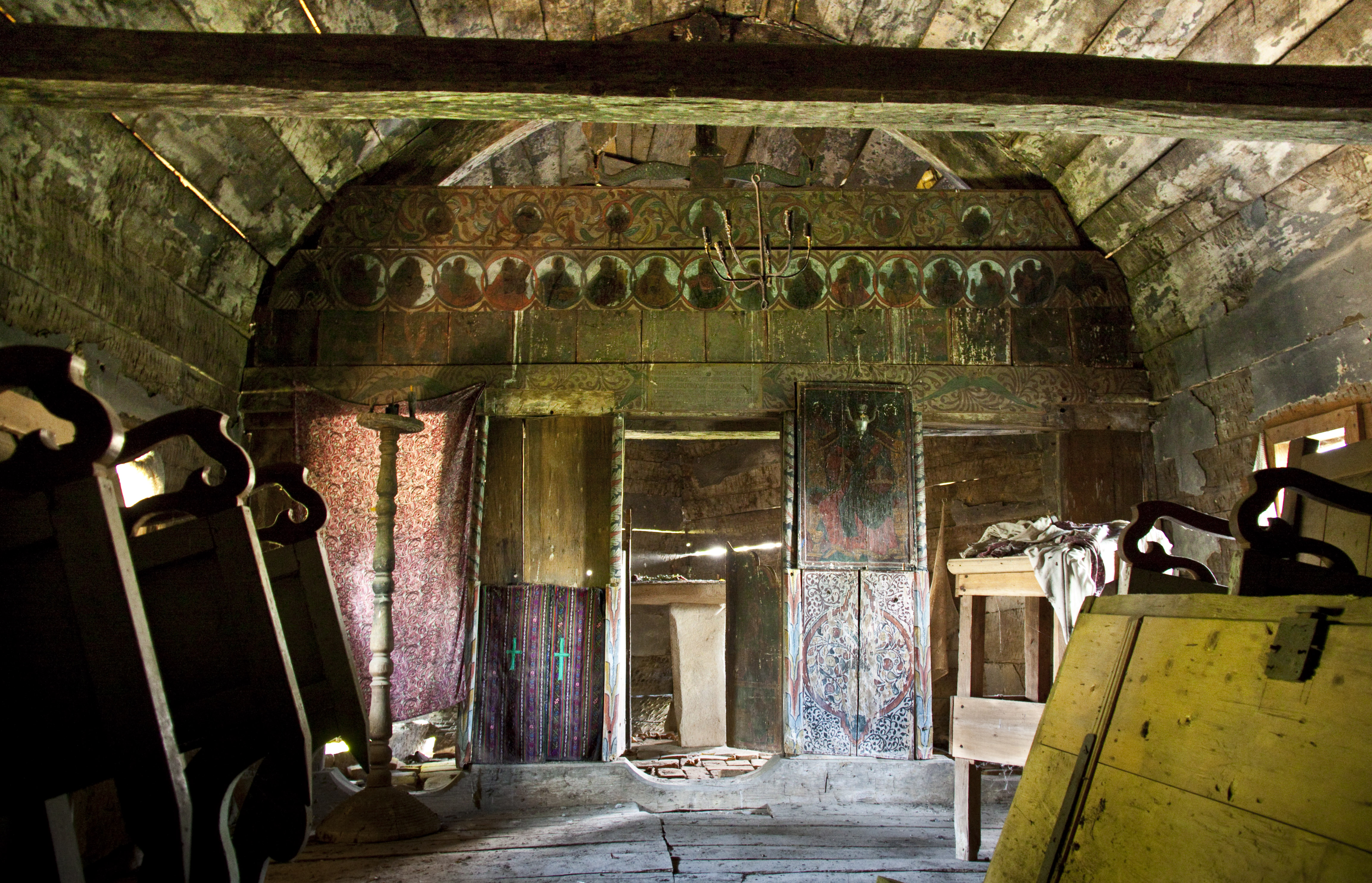 Scoraţa-Pietriş, Gorj county, Romania: the woden church.